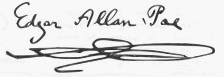 the signature of Edgar Allan Poe